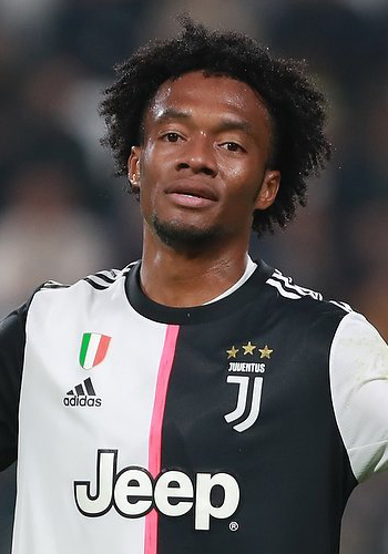 Colombian footballer Juan Cuadrado on 22 October 2019, during the 2019-20 UEFA Champions League match between Juventus and Lokomotiv Moscow in Turin.